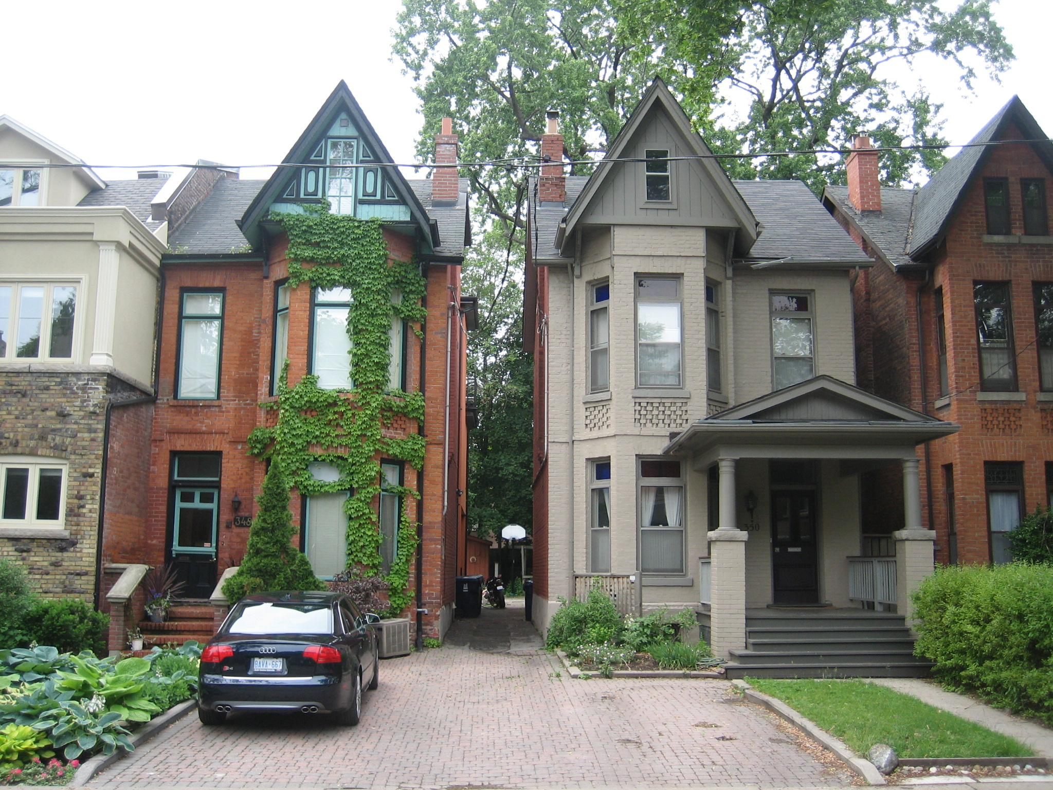 Example of a Bay-and-gable house in The Annex